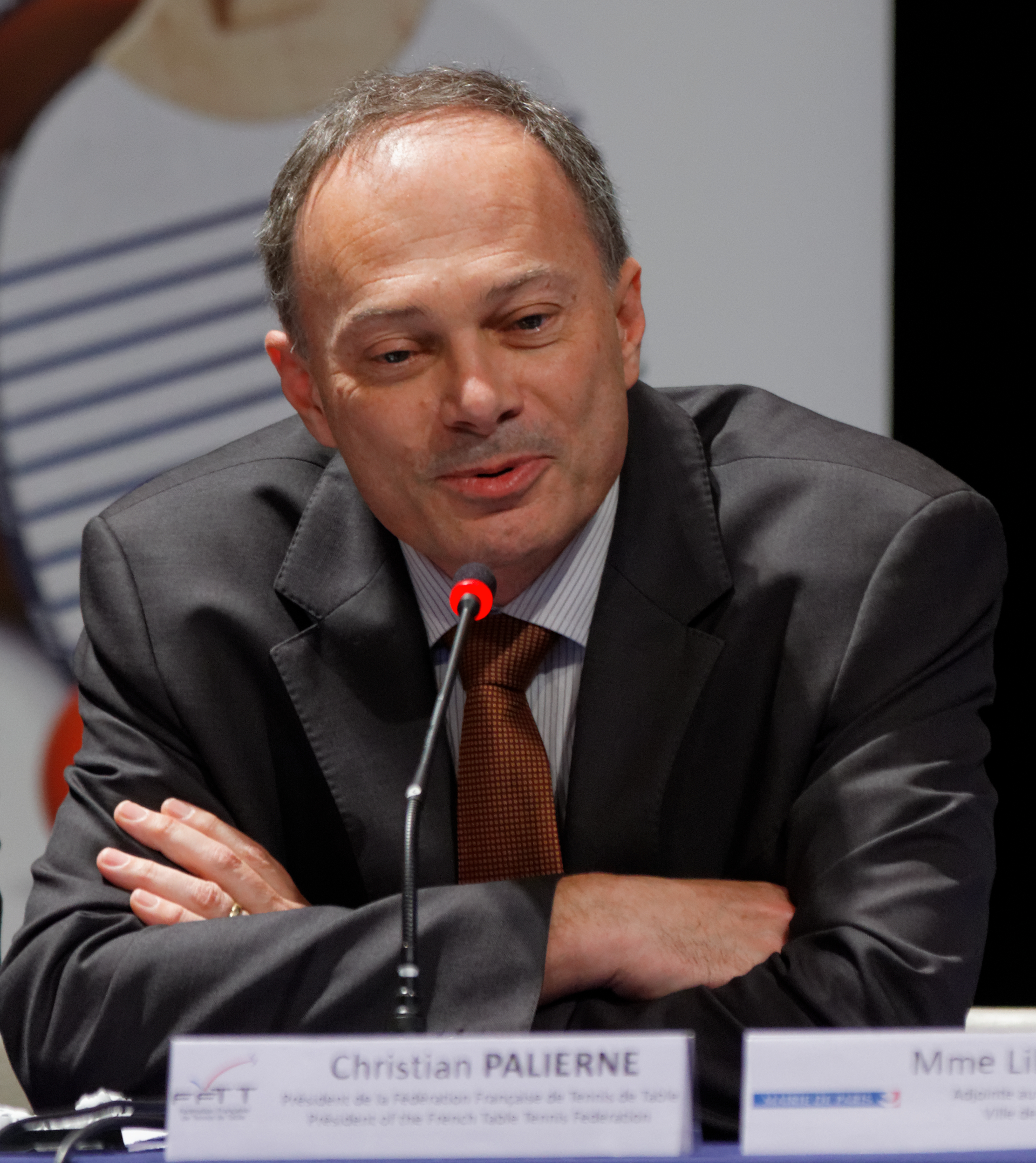 Championnats du monde de tennis de table, Paris. Conférence de presse et tirage au sort.